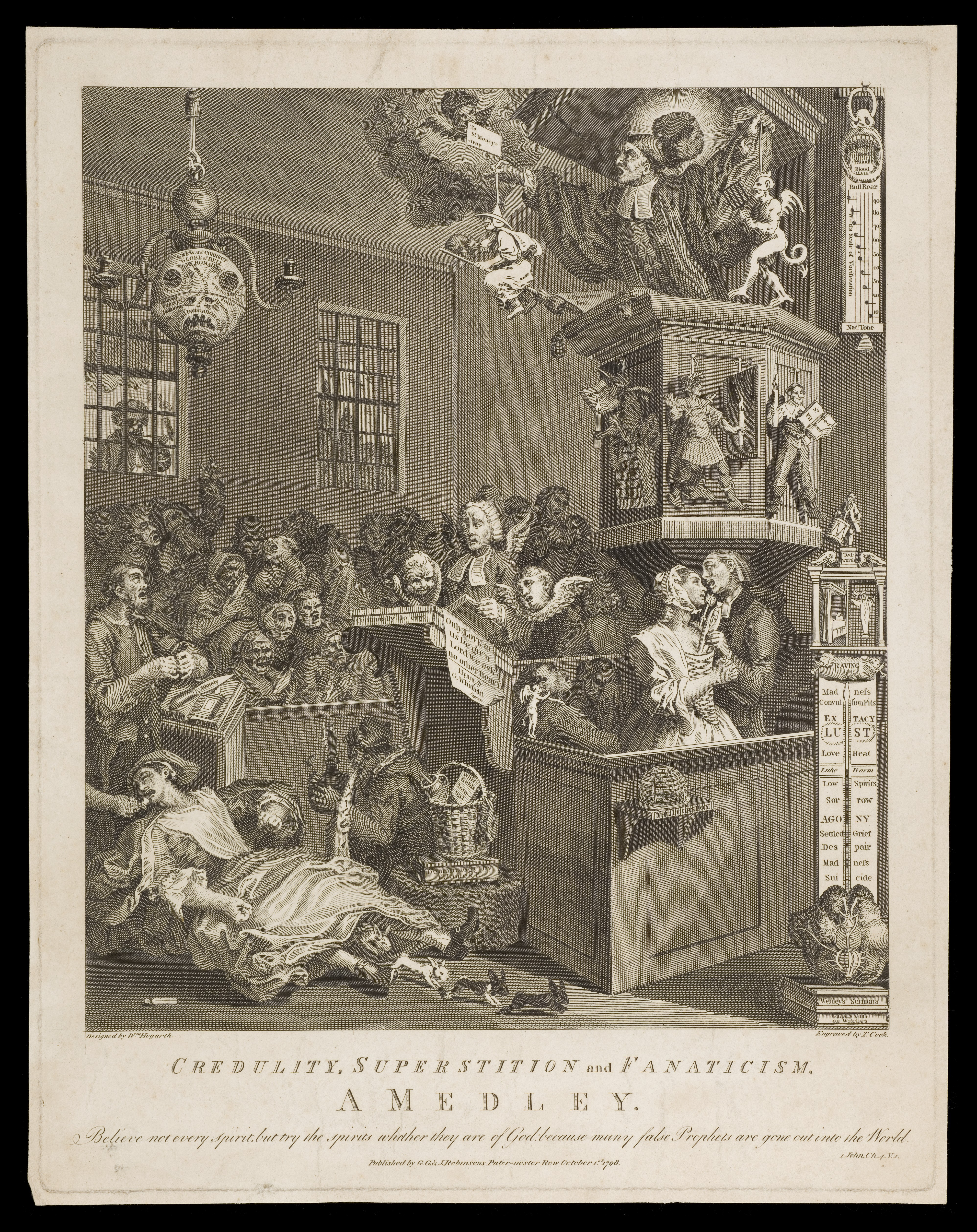 Credulity, superstition and fanaticism. A medley. "Believe not every spirit, but try the spirits whether they are of God: because many false prophets are gone out into the world." John. Ch.4.V.1. An outlandish church congregation; symbolising the multiplicity of human folly Iconographic Collections Keywords: William Hogarth; Thomas Cook; Mary Toft